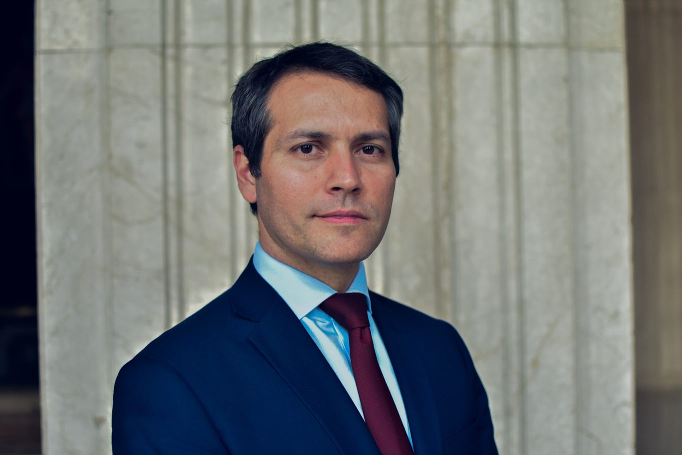 Photo by Rodrigo Yáñez Benítez as Undersecretary of International Economic Relations of Chile